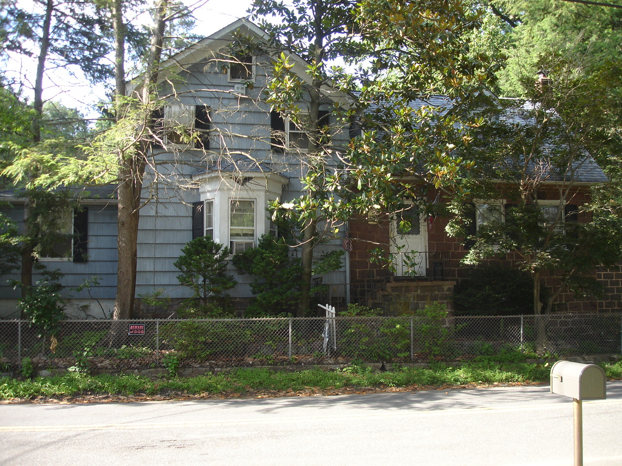 I took this photo of the Zabriskie Tenant House myself on July 10, 2011.